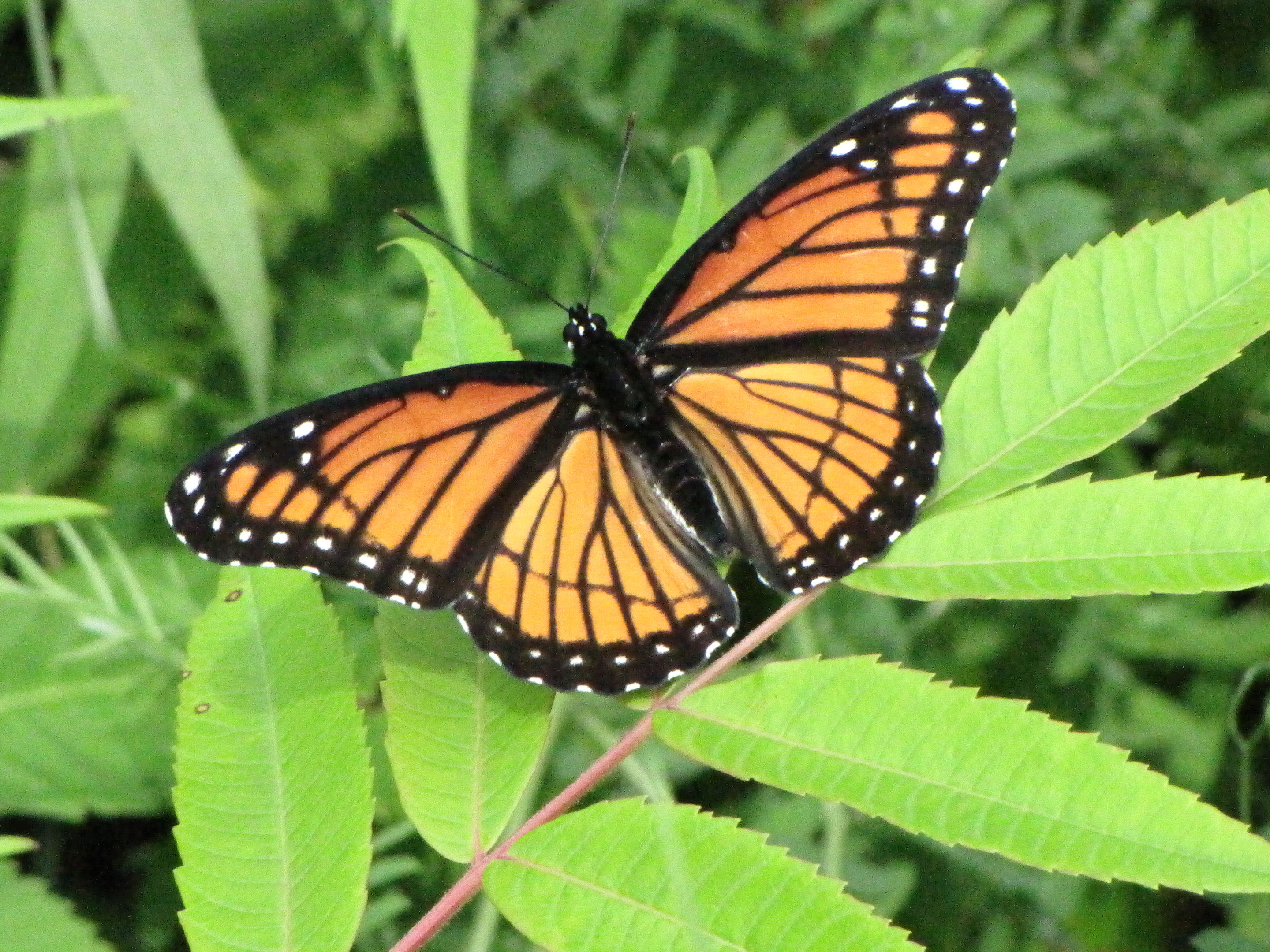 Viceroy (Limenitis archippus), Mer Bleue Conservation Area, Ottawa, Ontario